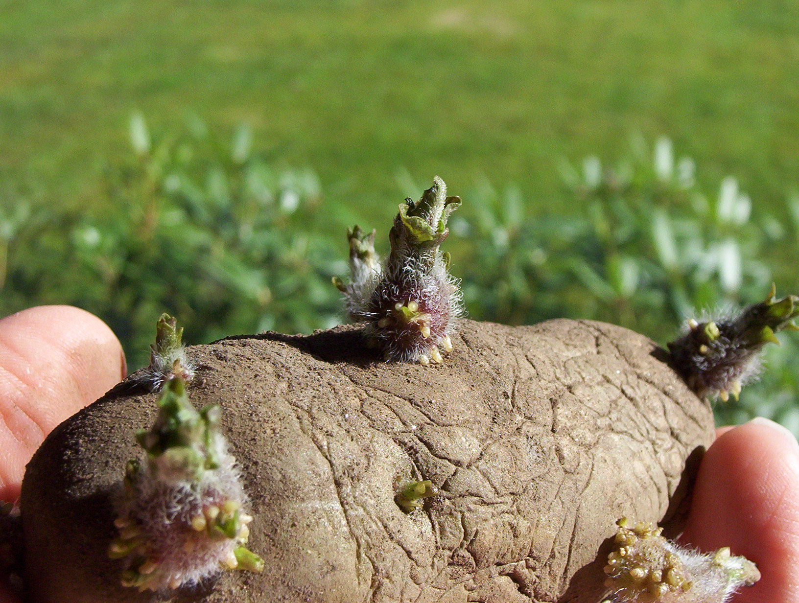 'Early Rose'-potato with sprouts. Old US variety from 1861.